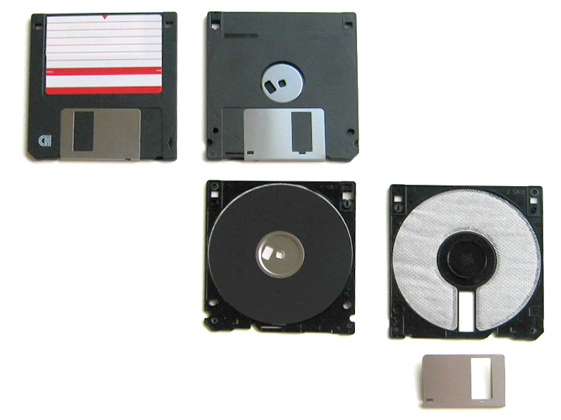 3½-inch floppy disk